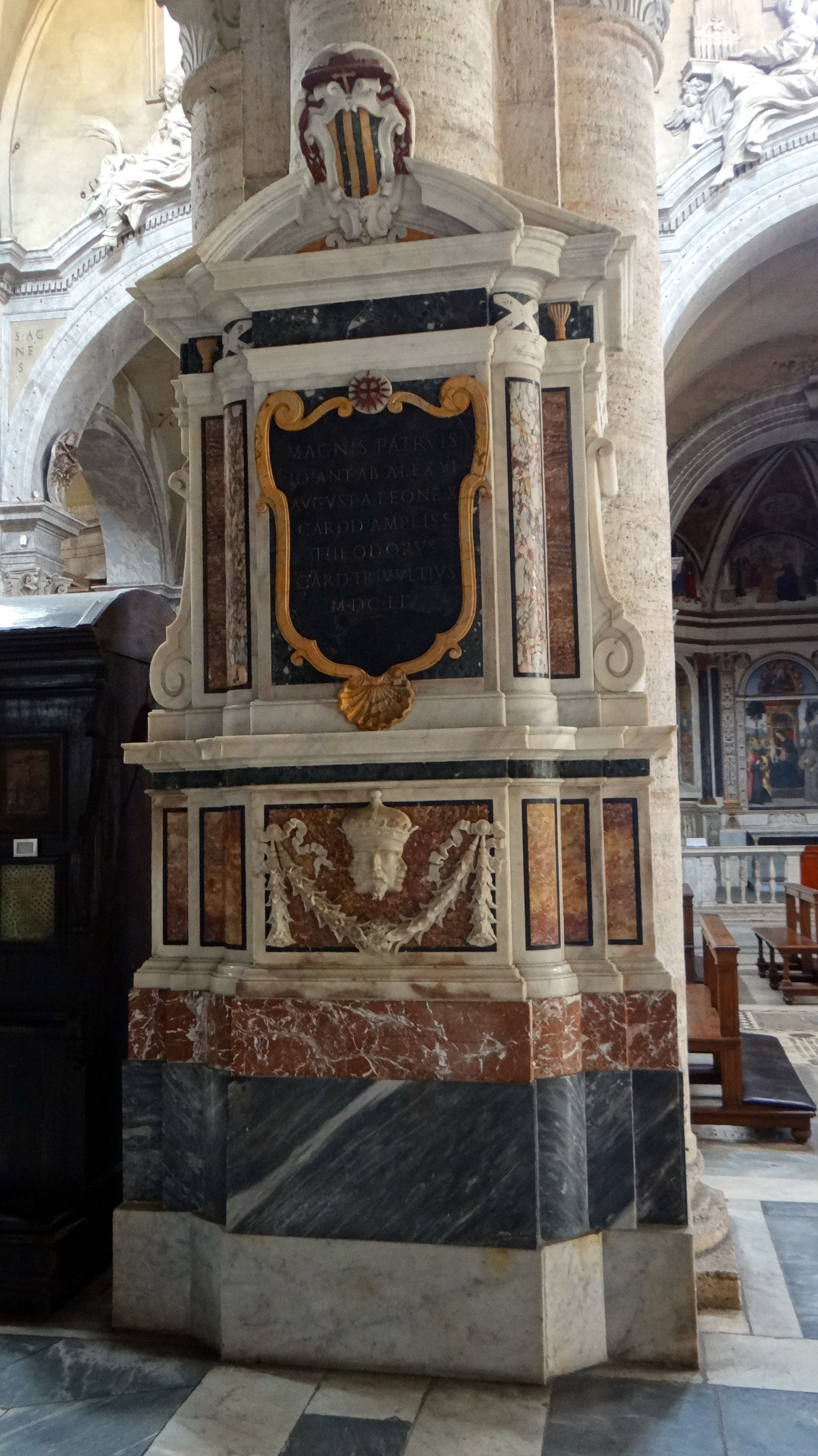 The tomb of the Trivulzio Cardinals, Giovanni Antonio and Agostino, erected by Gian Giacomo Teodoro Trivulzio in the Santa Maria del Popolo, Rome (1654).